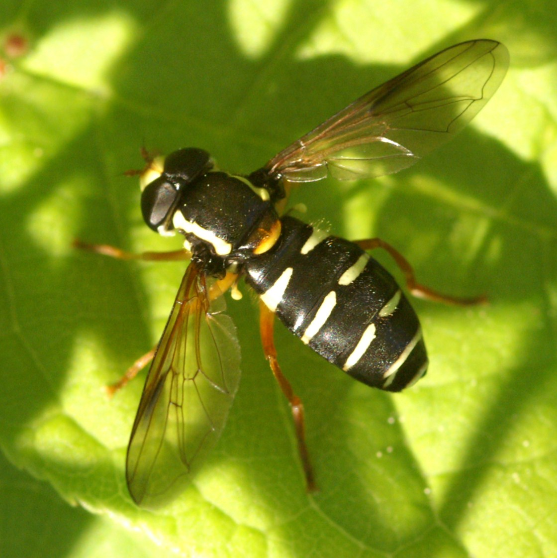 Xanthogramma citrofasciatum (male). Picture taken in Skåne, Sweden.